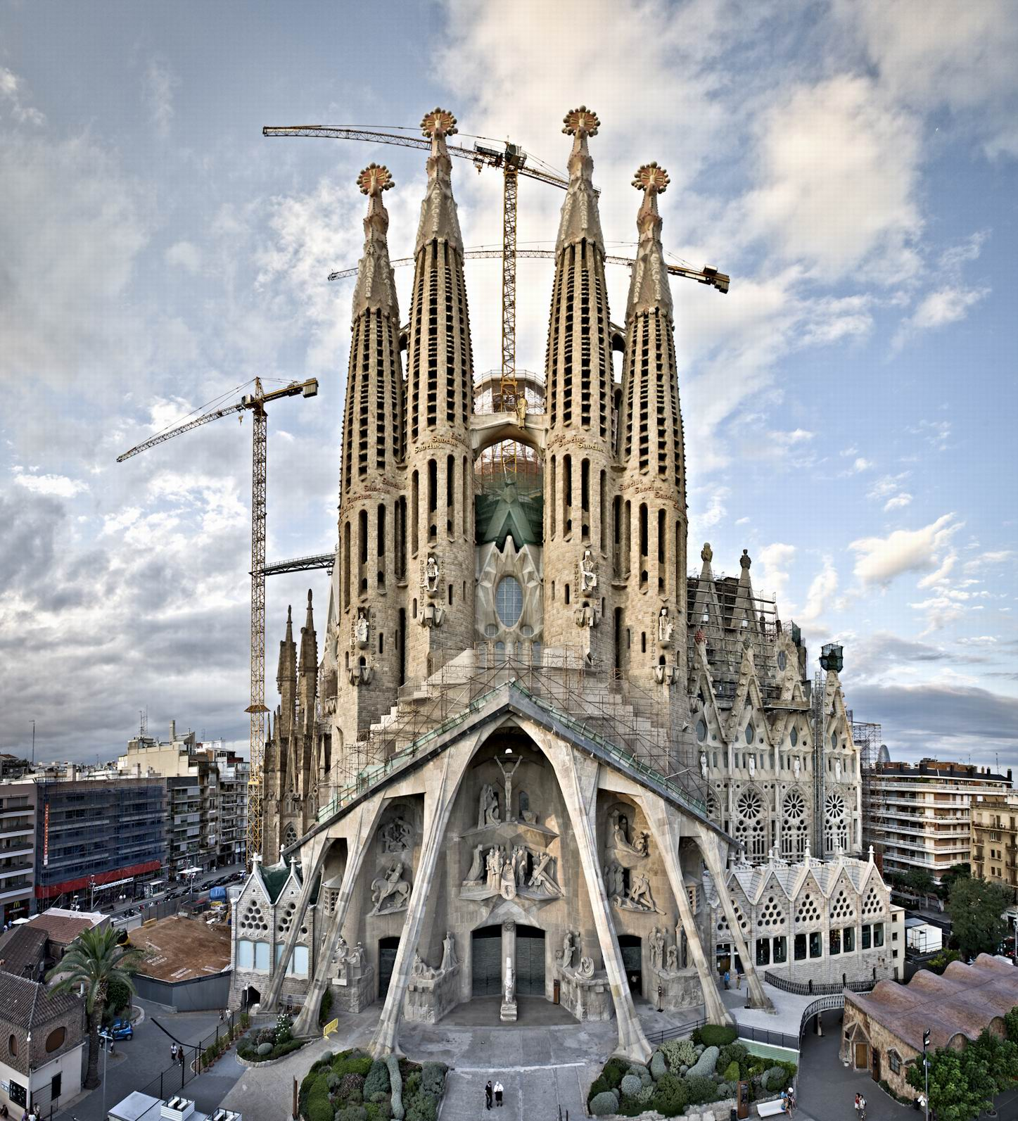 Passion facade or the south-west facing